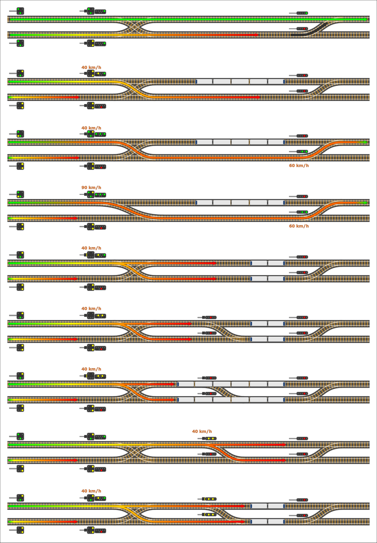 Diagrams of railway signals in Switzerland